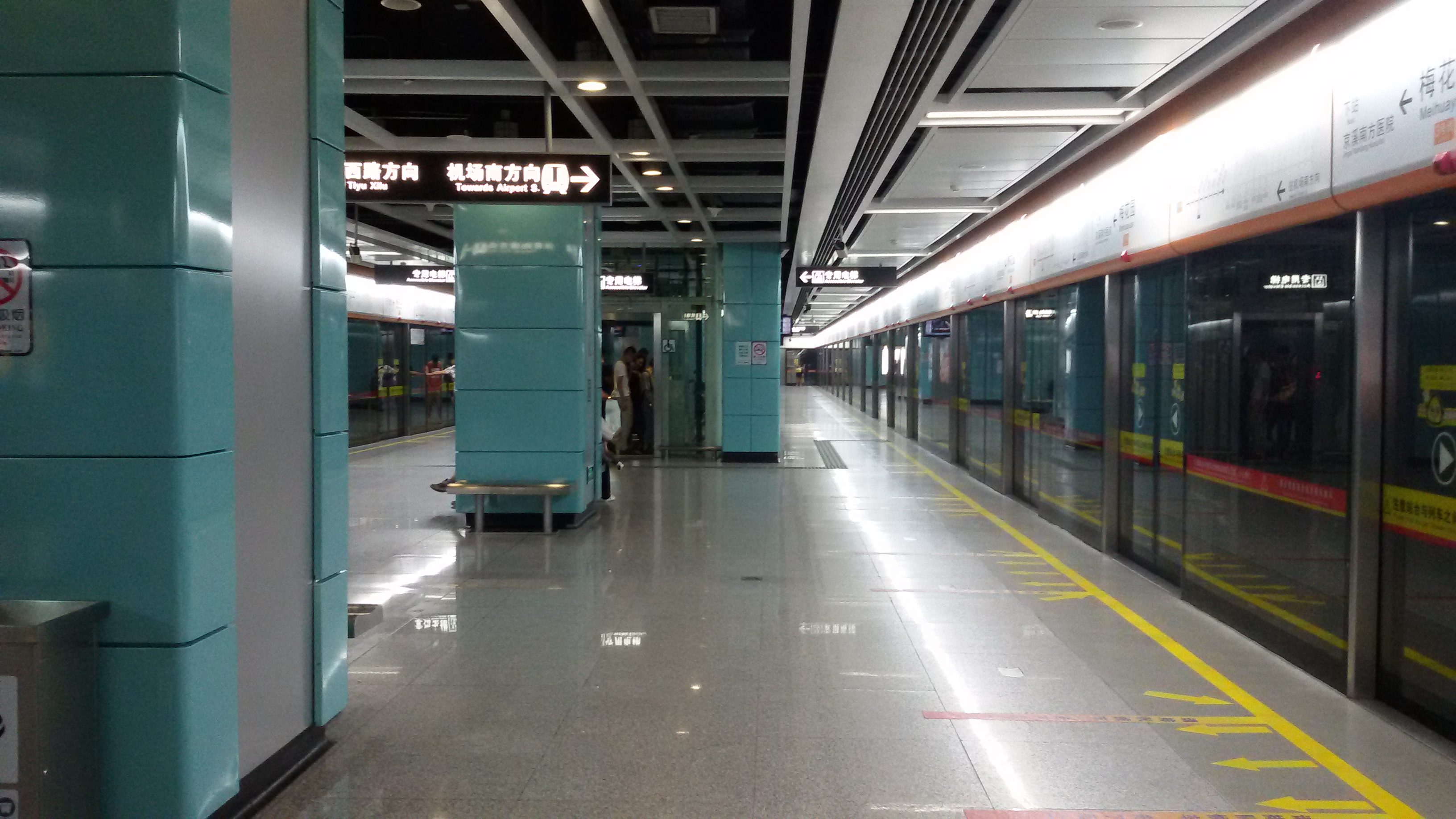 Station Platform for Meihuayuan Station in Guangzhou Metro